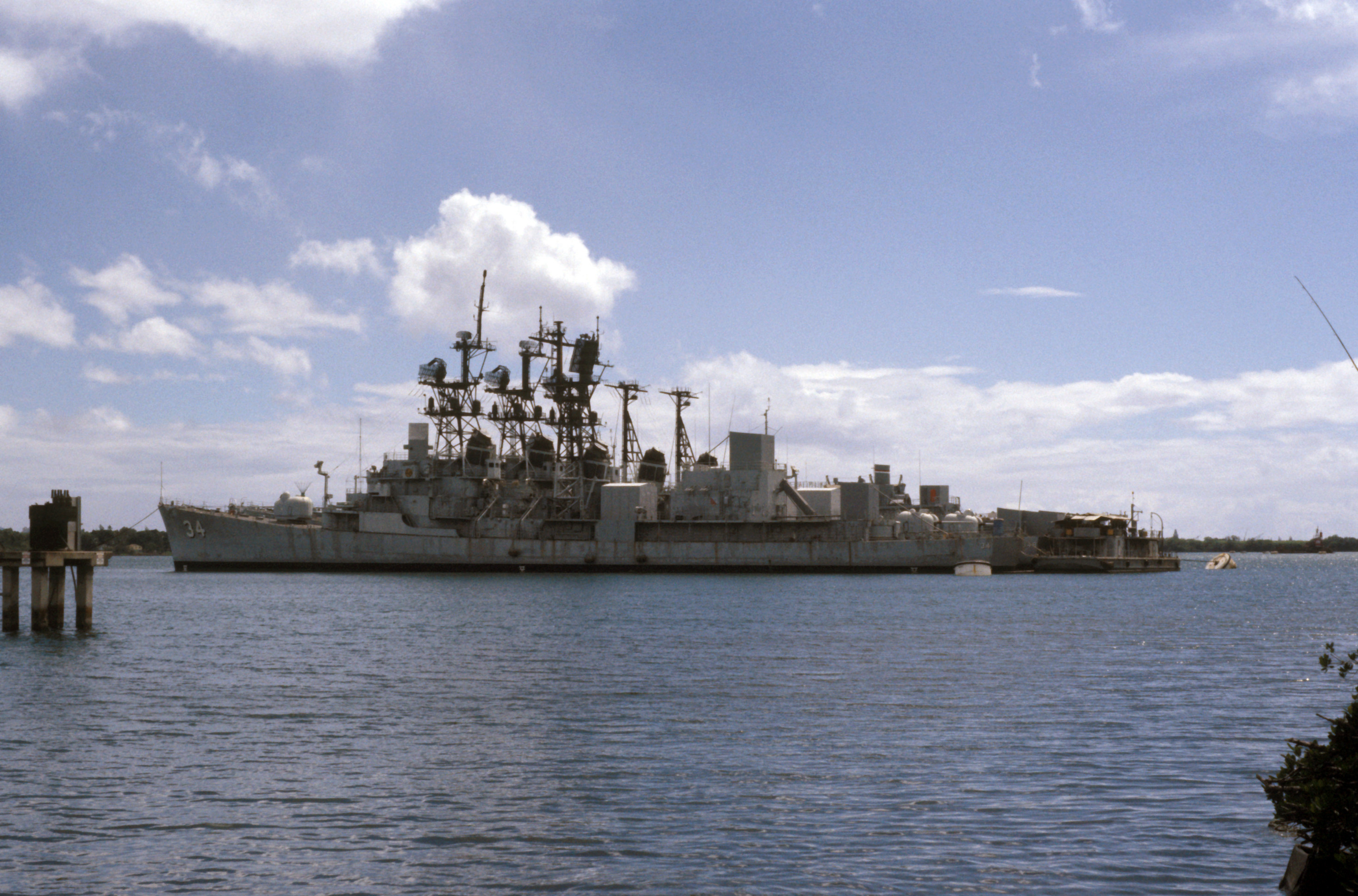 A view of several mothballed ships at anchor near Beckoning Point in the Middle Loch. From front to rear are the guided missile destroyer USS SOMERS (DDG 34), the destroyers USS MORTON (DD 948) and USS RICHARD S. EDWARDS (DD 950).Location: PEARL HARBOR, HAWAII (HI) UNITED STATES OF AMERICA (USA)